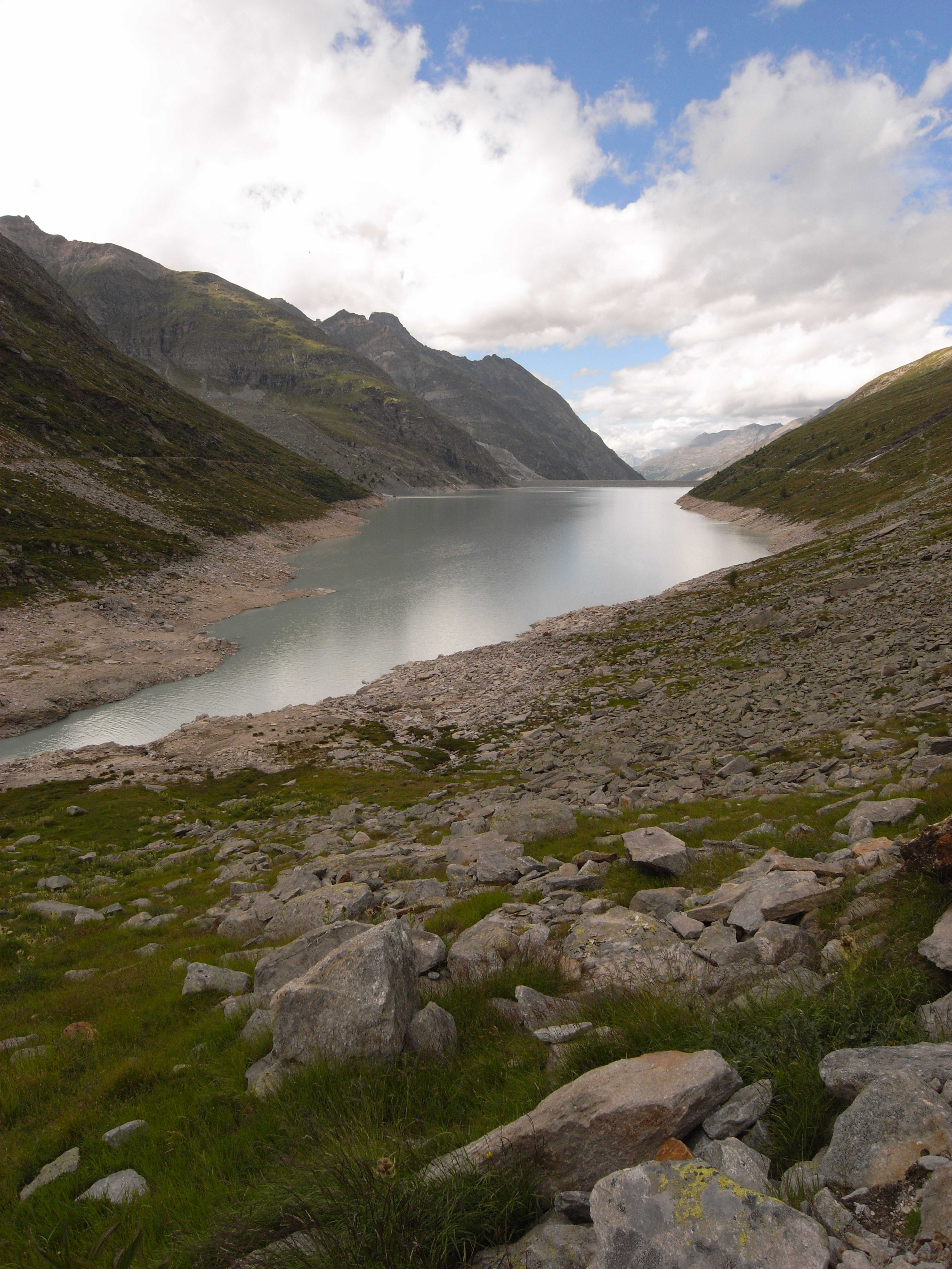 Lake Mattmark in Saas Valley (Valais, Switzerland)